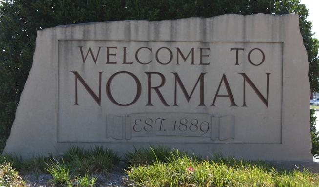 Welcome to Norman, OK. Established 1889.